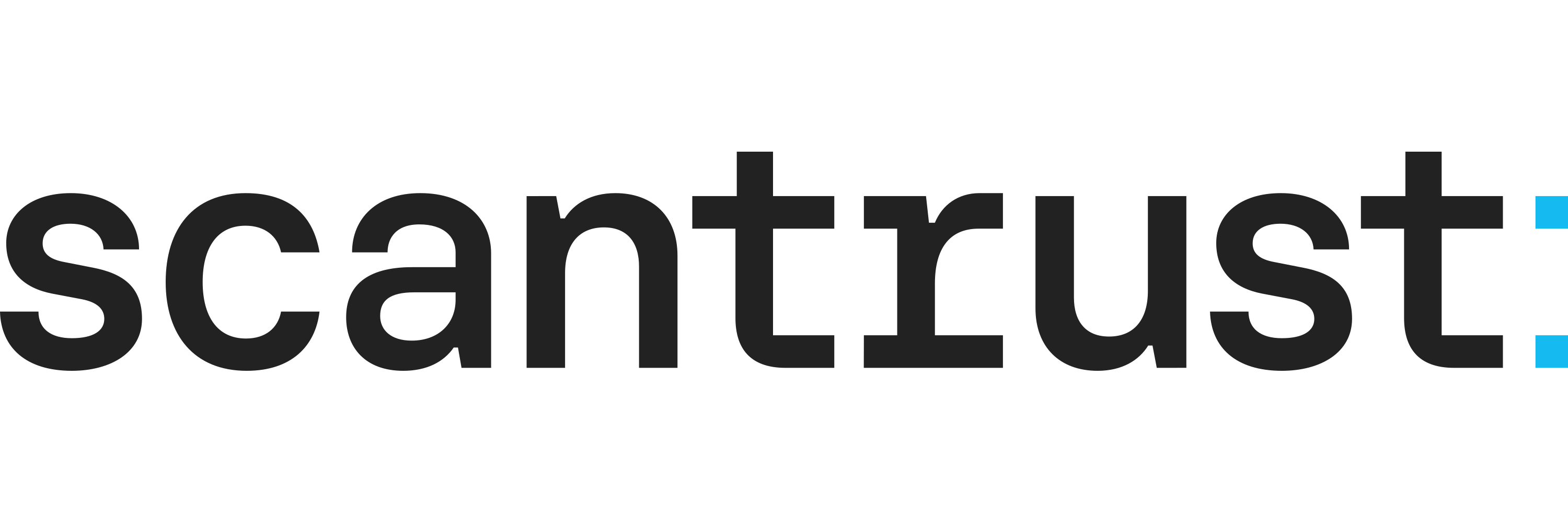 Scantrust logo 3000x1000